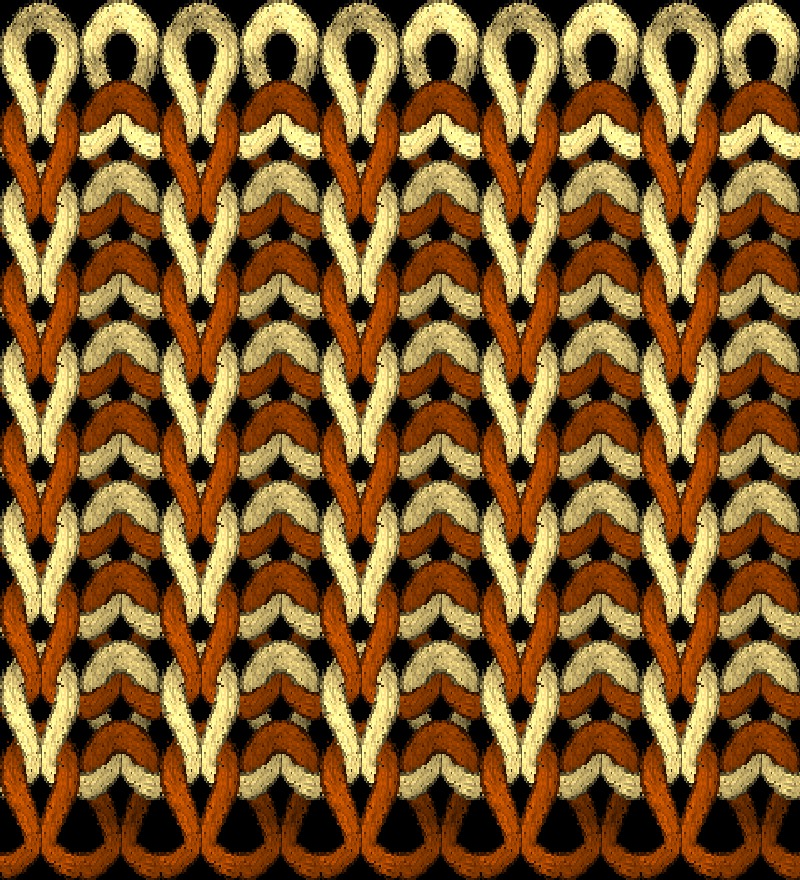 حسام هطلاني